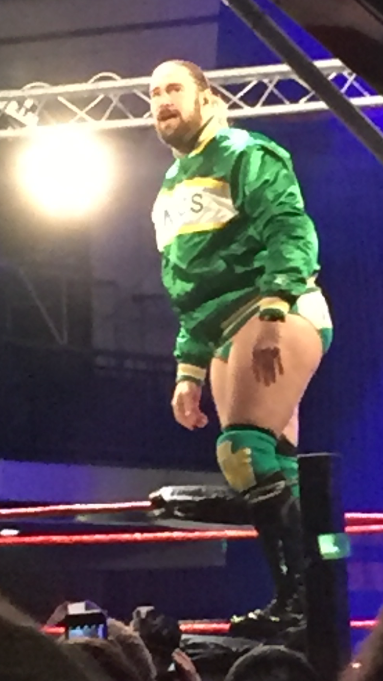 Chris Hero posing on the turnbuckles at RPW Global Wars UK 2016.